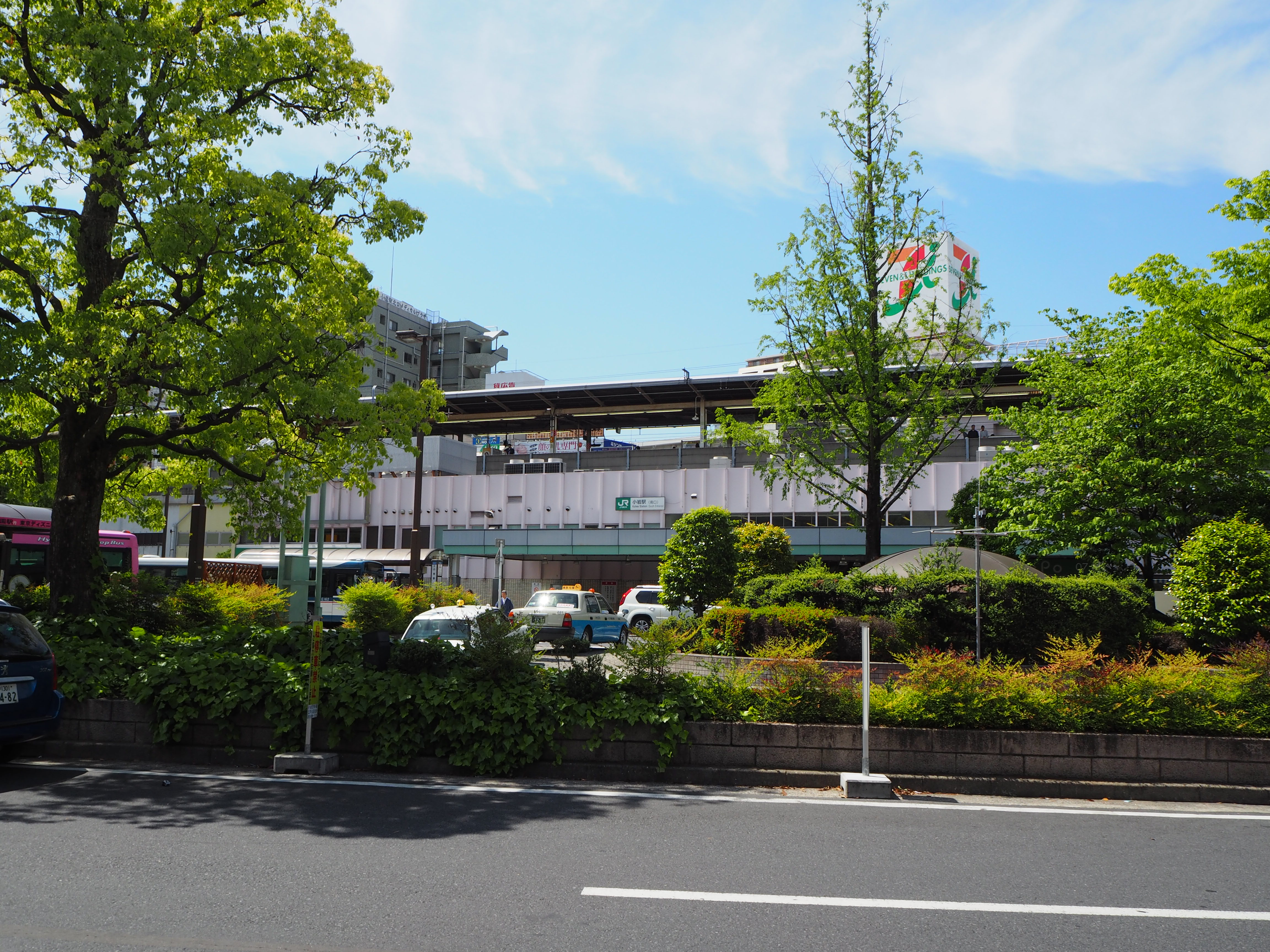 South Entrance of Koiwa Station